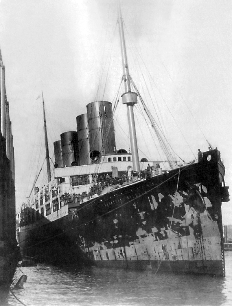 Kronprinz Wilhelm as she rests at a New York pier after a 1902 crossing. The paint is worn from her bow plates by the speed of her passage. Photo courtesy of Shaum collection from "Great Liners at War" by Stephen Harding